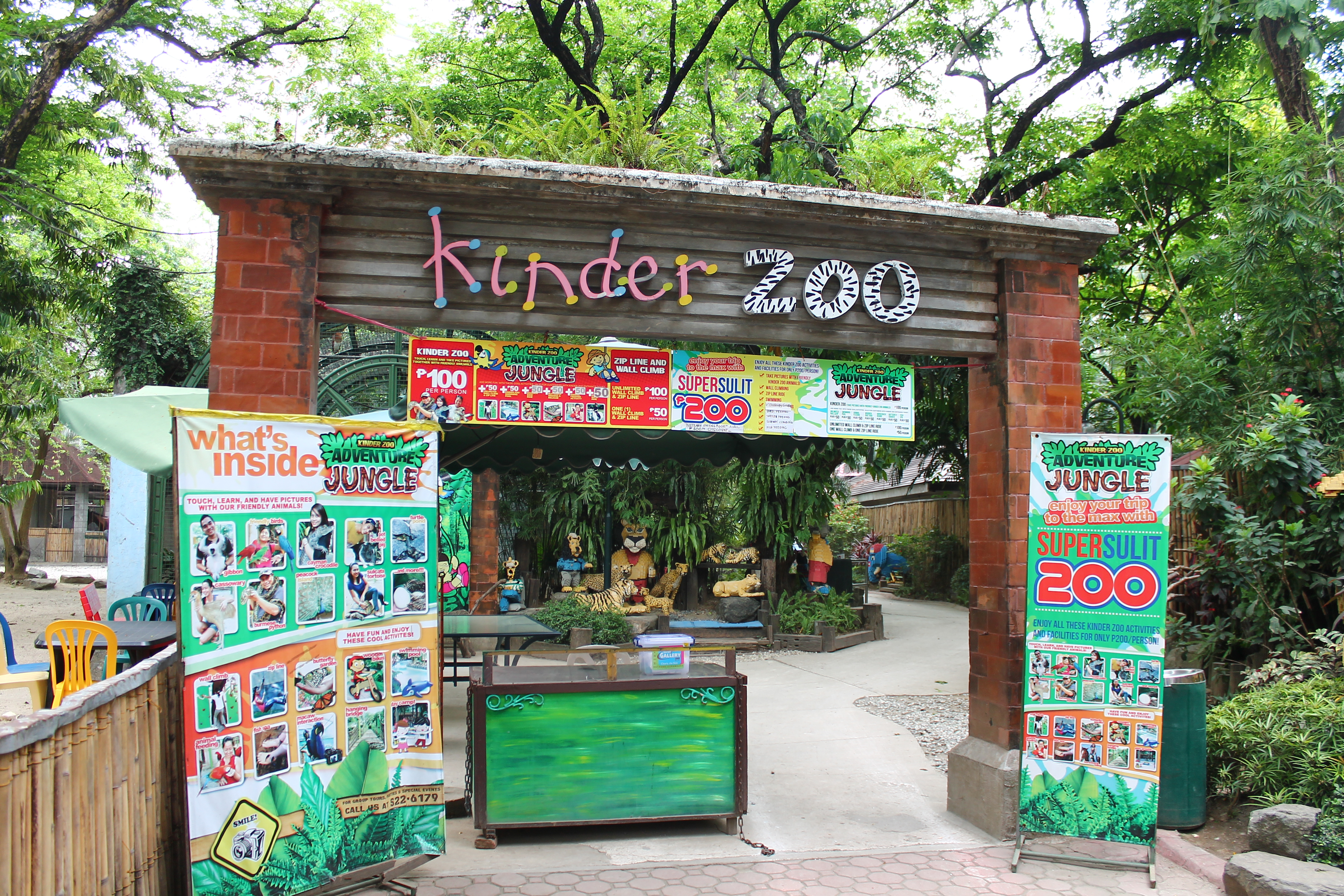 Kinder Zoo is inside Manila Zoo in Manila